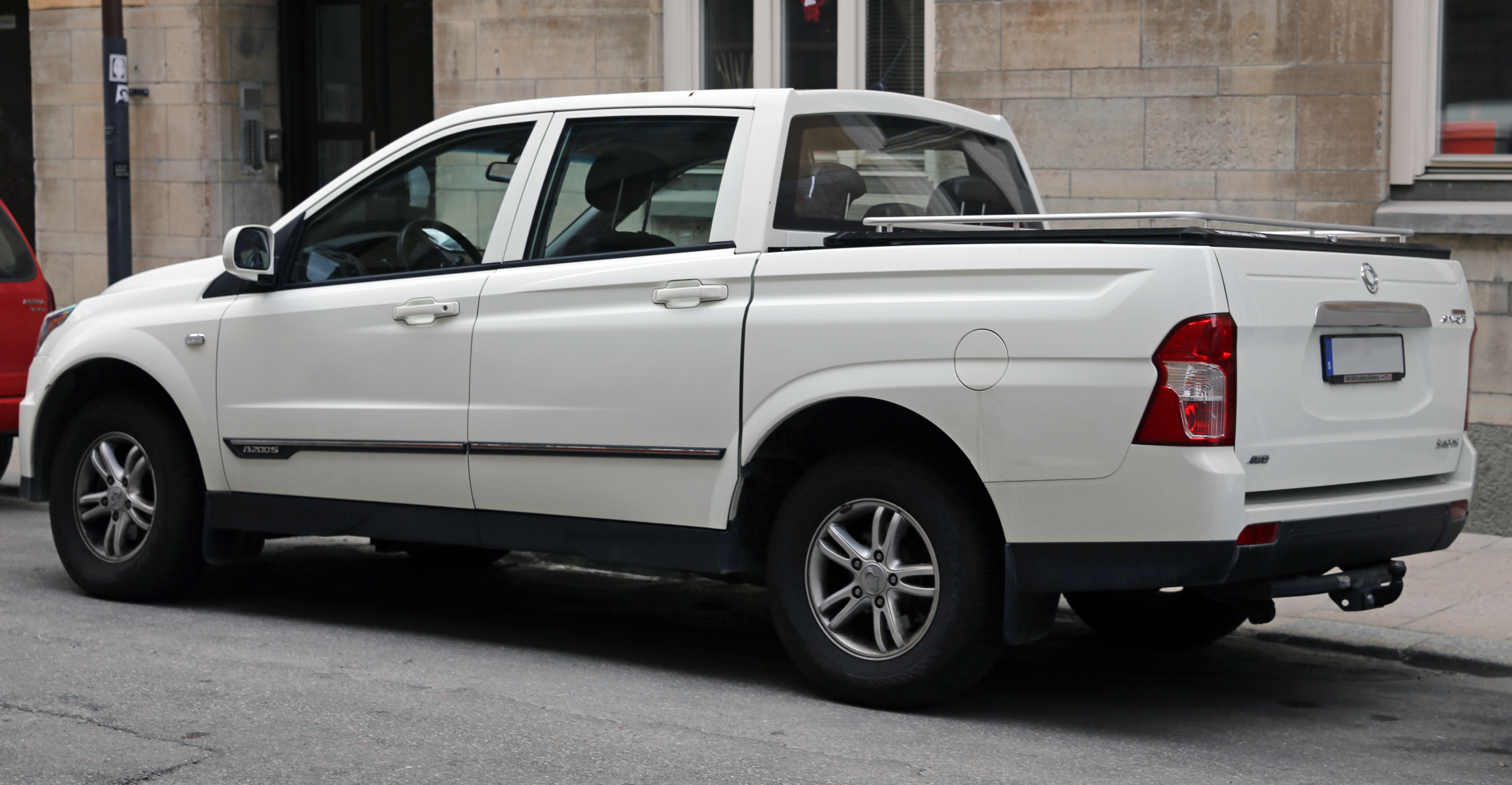 2012 Ssangyong Actyon Sports D200S in Stockholm. It has a 155PS (114kW) 1998cc turbodiesel inline-four, manufacture date is February 2012.